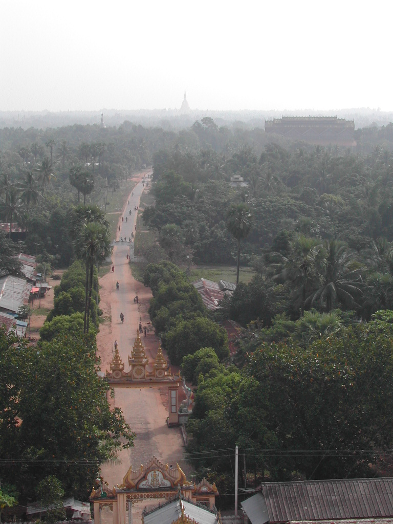 Bago, Myanmar. View from the Mahazedi Paya